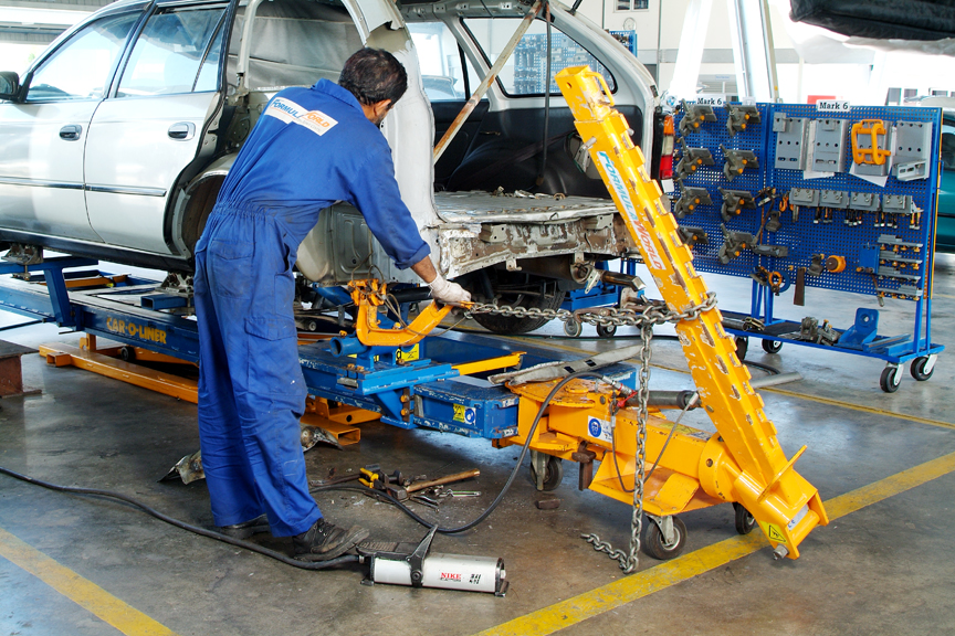 Uni Body Frame Correction System